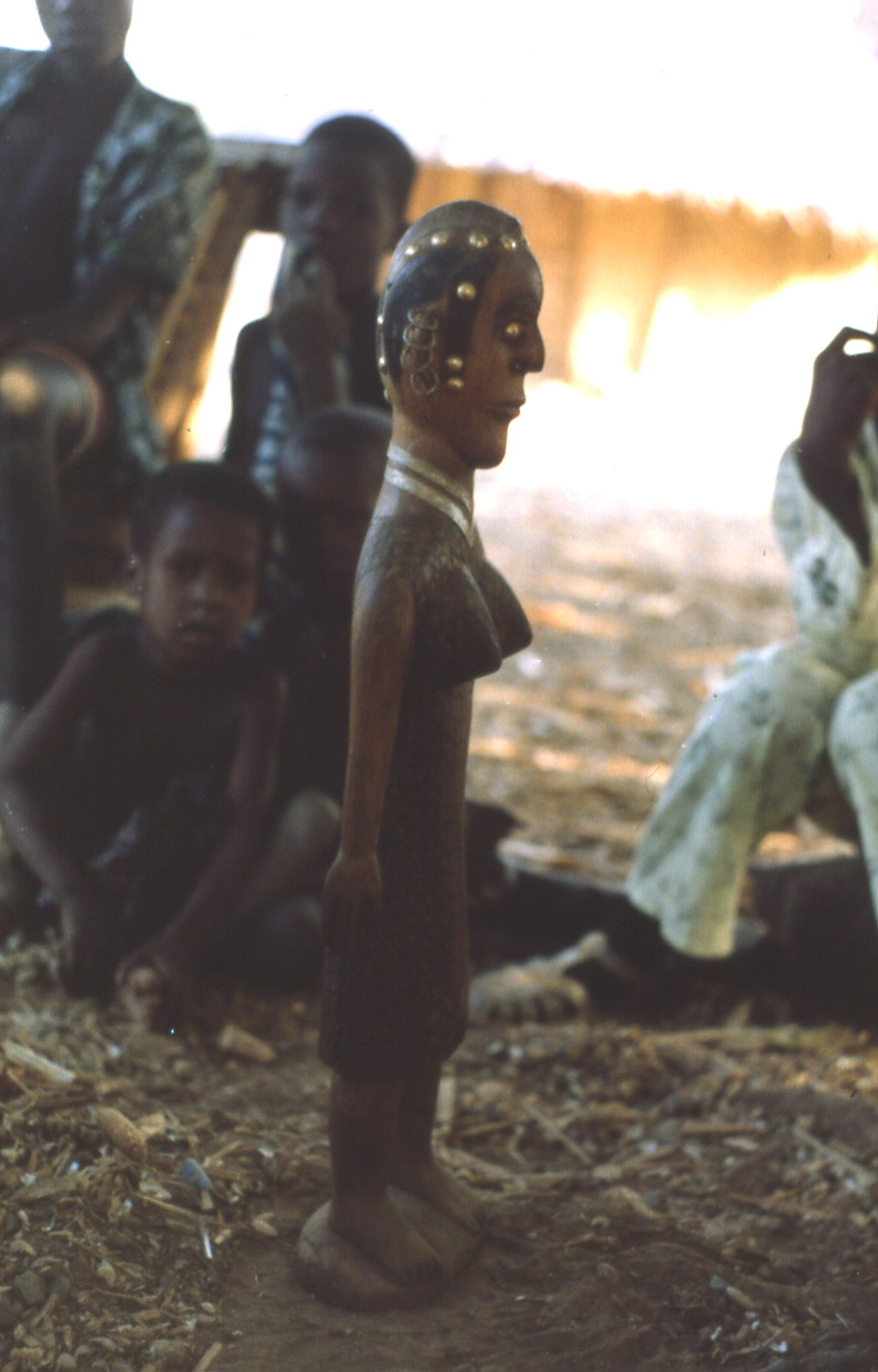 Children contemplating a wooden statue made in their village: Ibel, southeast Senegal (West Africa)- Photo légèrement retouchée pour améliorer les contrastes